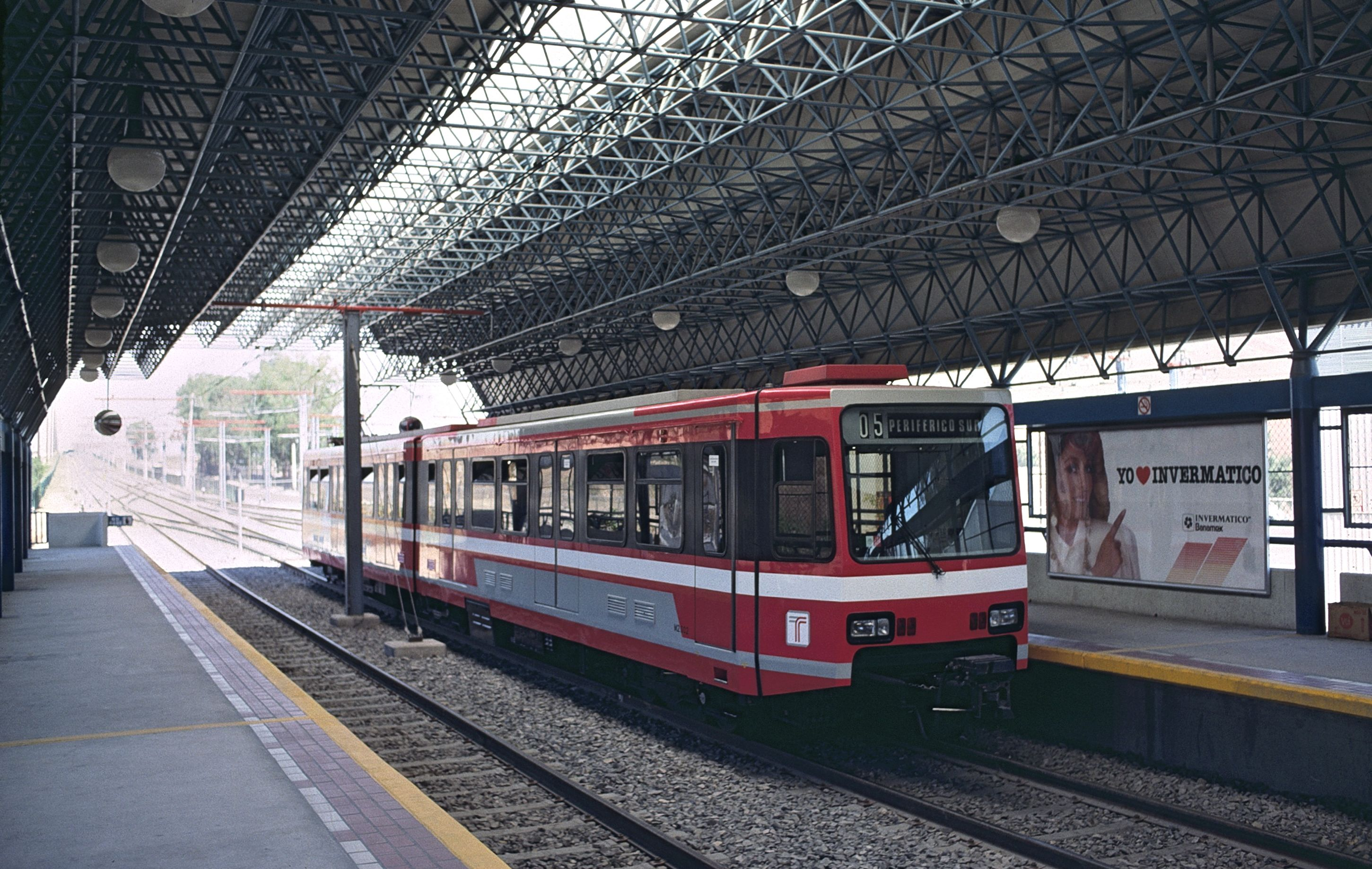 Car 002 of the Guadalajara light rail system (or tren ligero), built in 1988 by Concarril, is laying over at the southern terminus of Line 1, Periférico Sur station, in 1990.